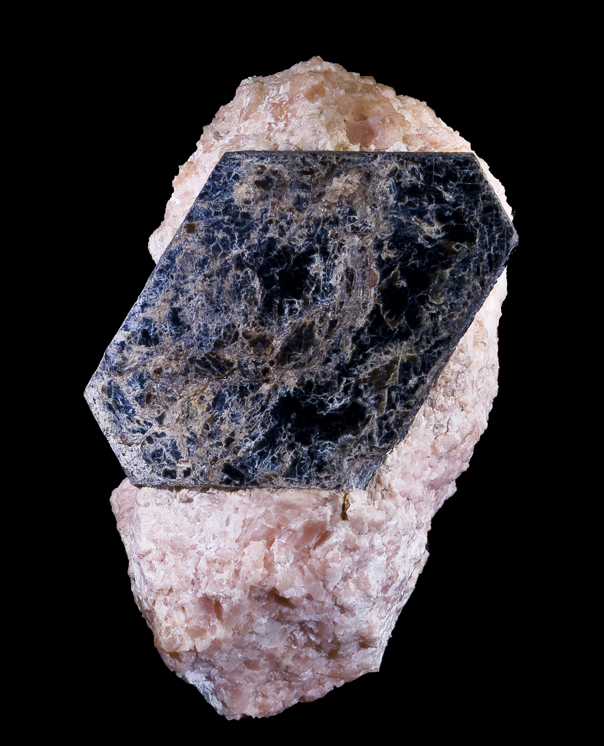 Biotite on pink calcite Locality : Leduc Mine, St-Pierre-de-Wakefield, Wakefield Township, Gatineau Co., Québec, Canada Size: 10x6cm